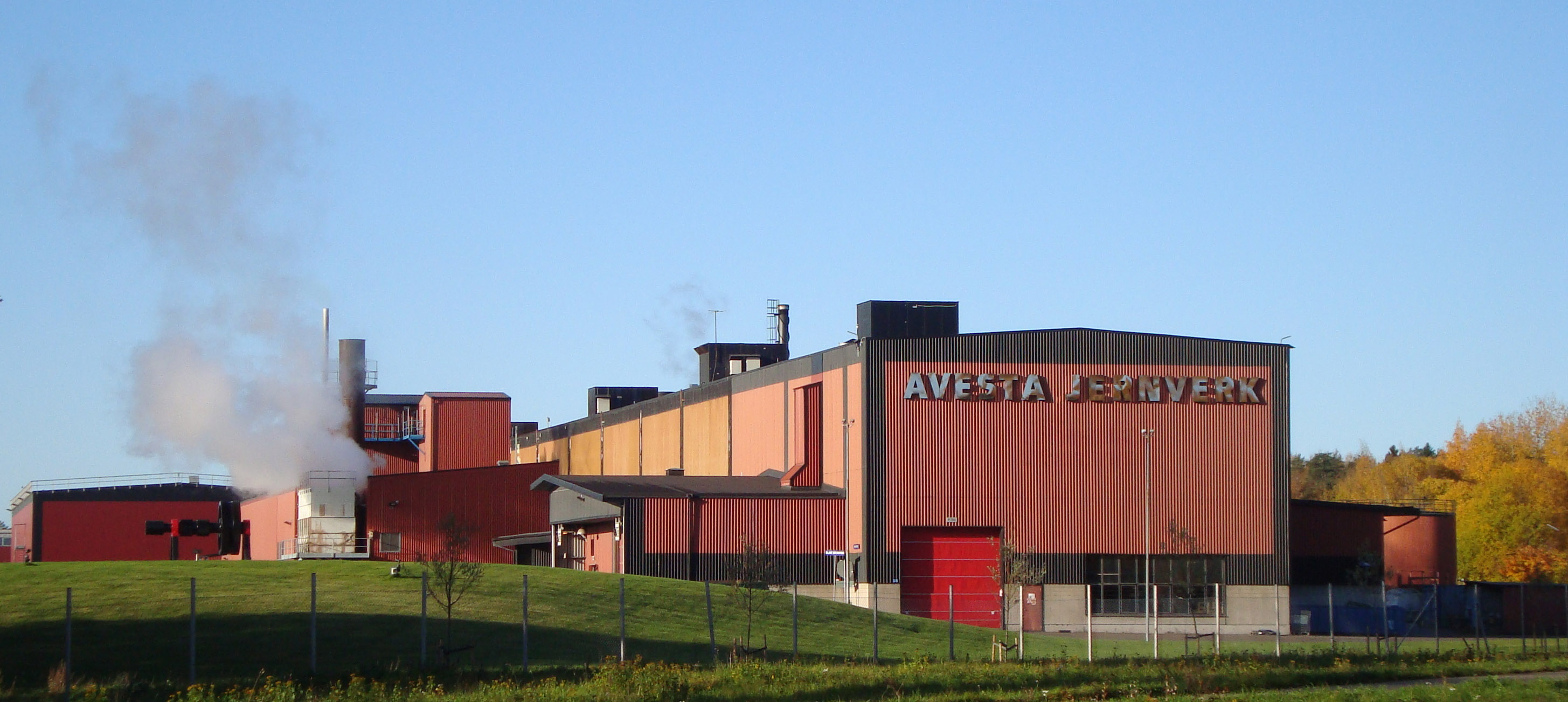 Iron works of Avesta, Sweden